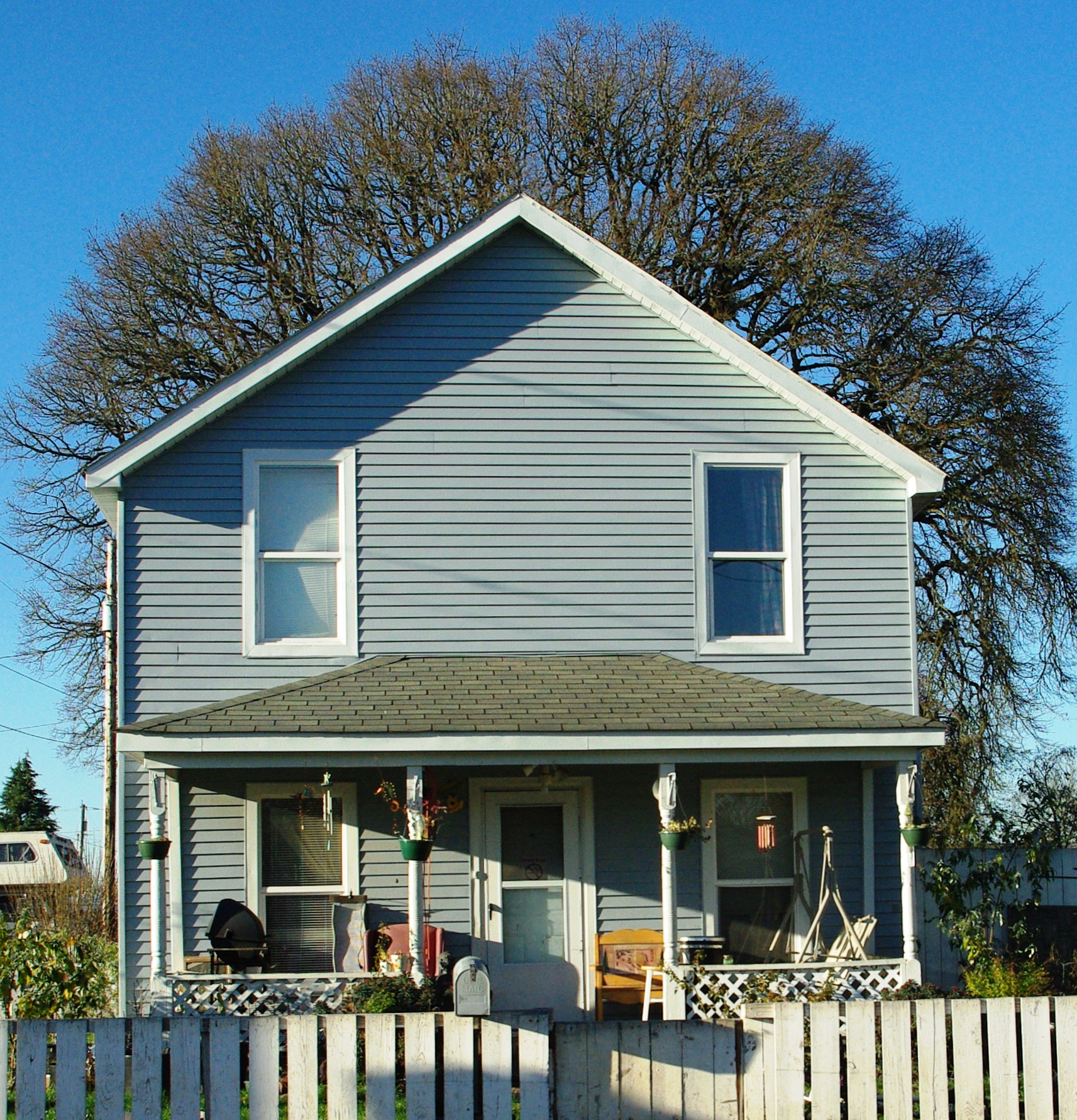 The Baxter House, located at 407 Church Street in Dayton, Oregon, United States, was formerly listed on the US National Register of Historic Places.